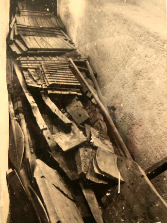 Solar bark of Kheops. Situation when discovered. Image taken by Alex Lbh in April 2005.